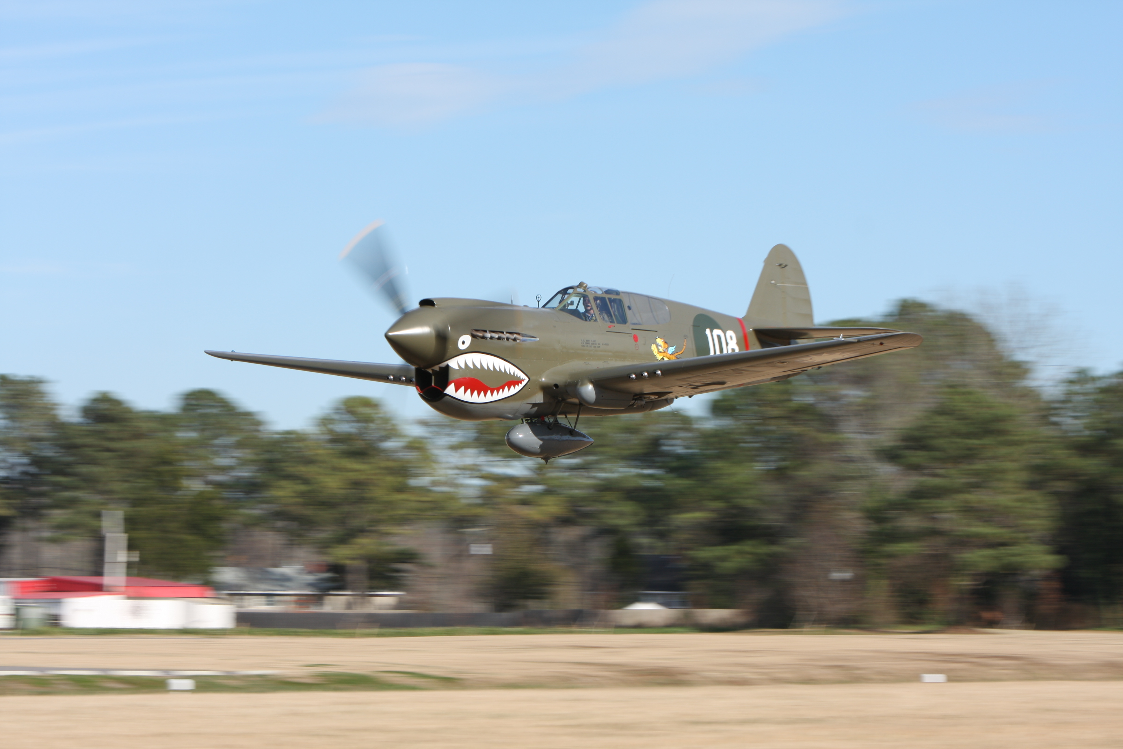 Curtiss Kittyhawk IA ET564 (P-40E-1) 41-35918 (1025_N1941P) presented as Tex Hill's 41-5658 '108' in AVG's 3rd FS of the Military Air Museum on November 28, 2008 on a high speed low level pass. Taken in Virginia Beach, Virginia